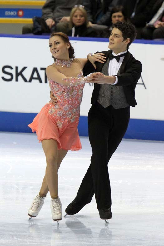 Vanessa Crone and Paul Poirier at the 2011 Canadian Figure Skating Championships